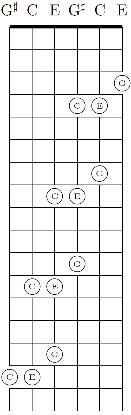 The C-major chord is shown diagonally shifted in four positions on a six-string guitar with major-thirds tuning. Improved quality (resolution) and without English textual labeling.